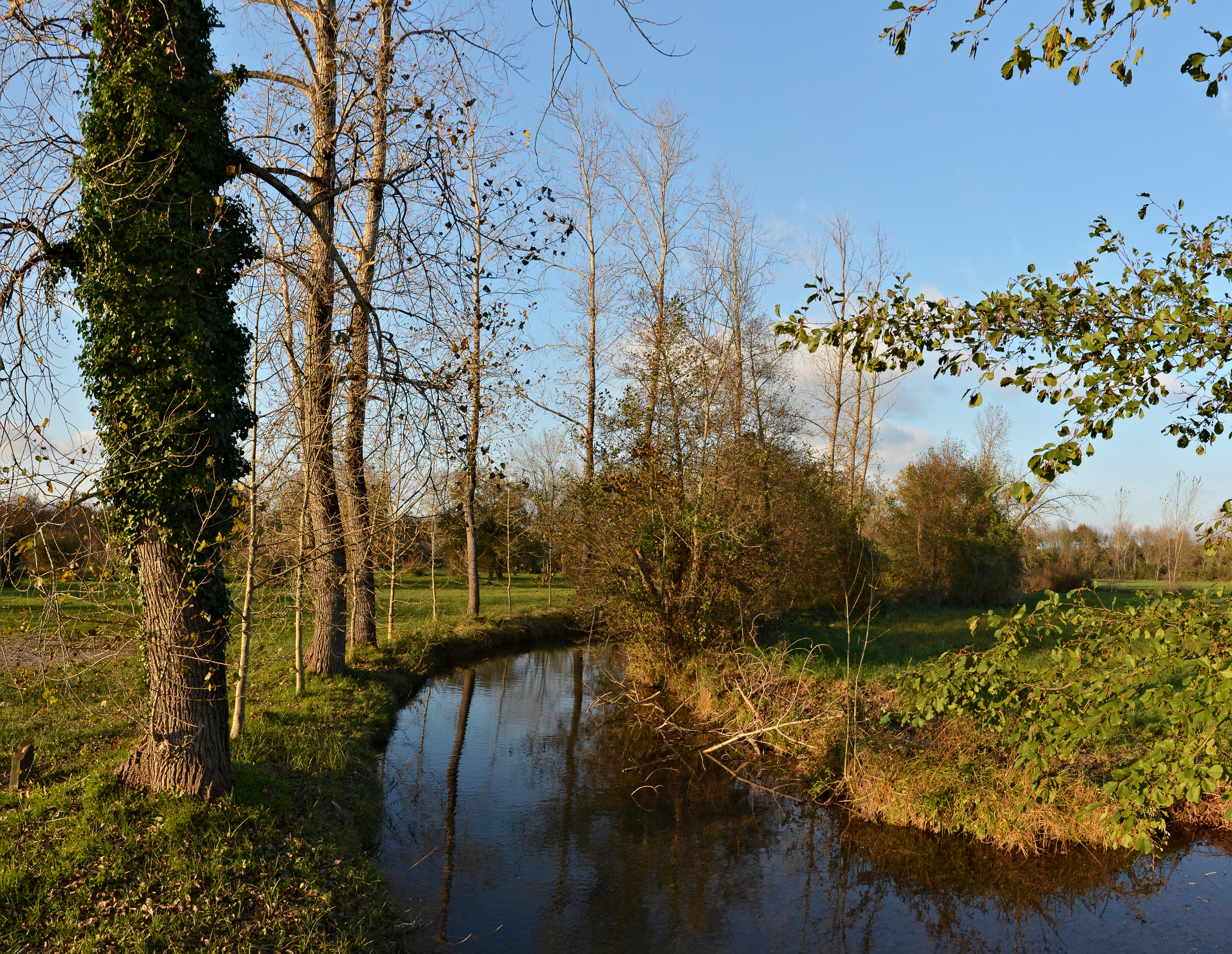 Branch of the Lizonne river in autumn. Natural park of peat-bogs, Vendoire, Dordogne, France.